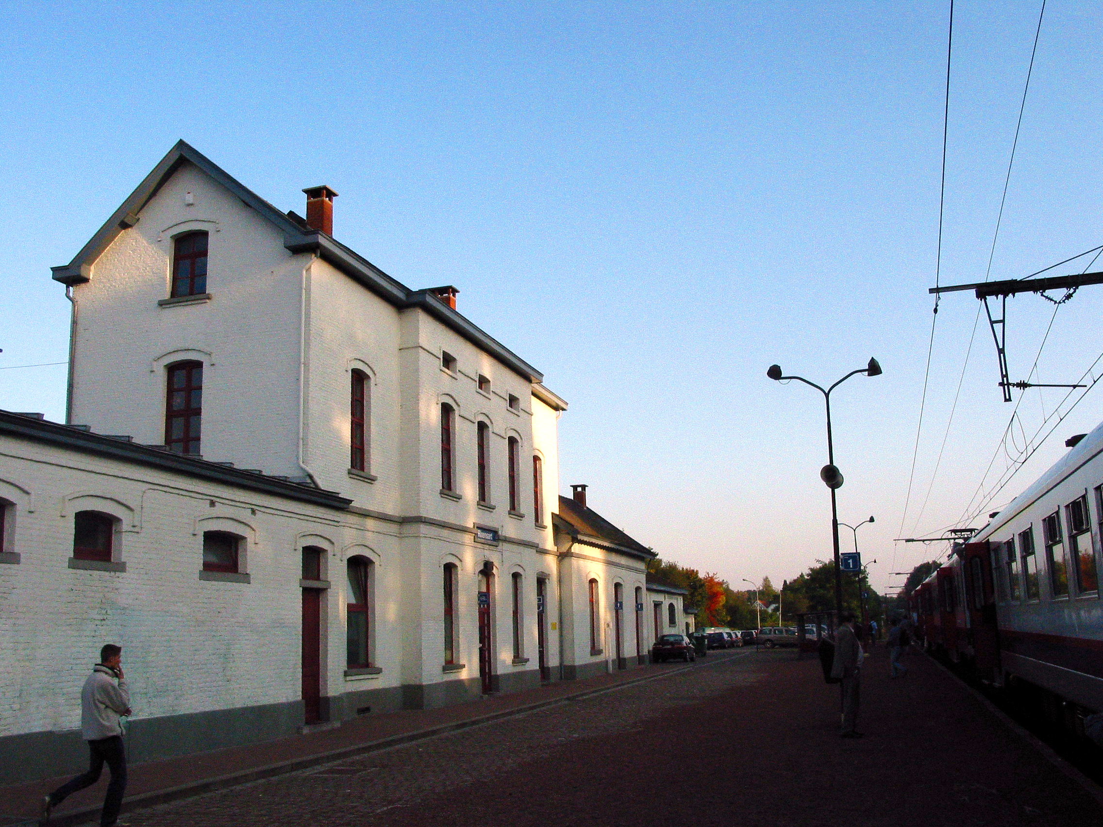 Rixensart (Belgium), the railway station.